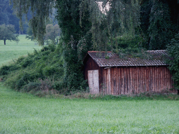 old building near "Hintermehring", made by me in spring 2004